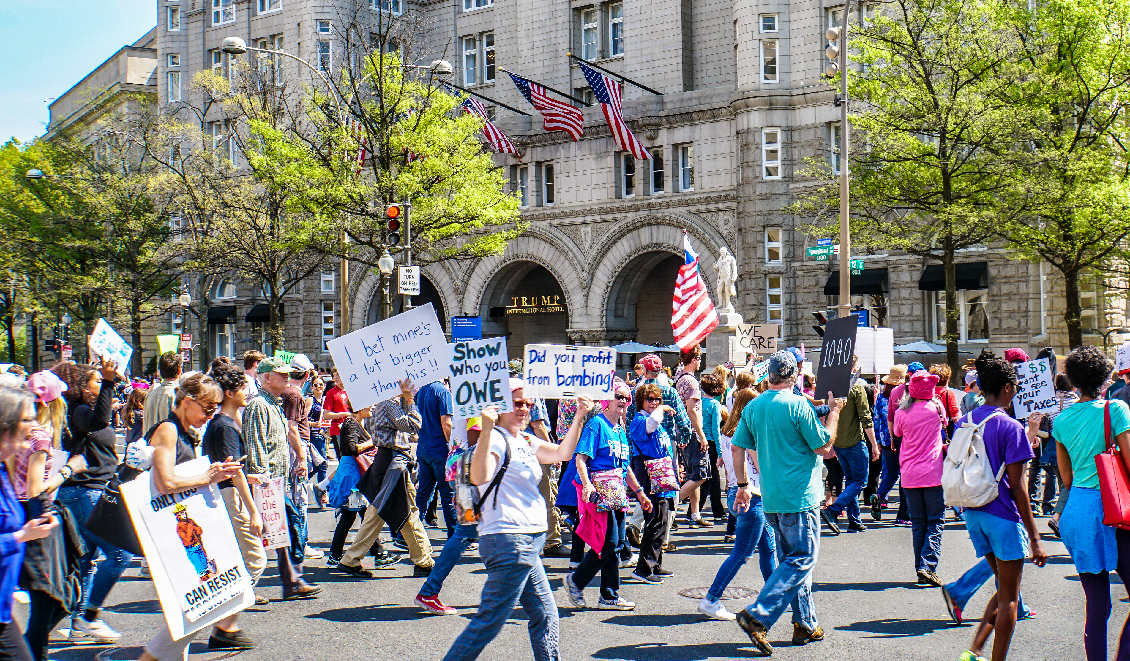 2017.04.15 #TaxMarch Washington, DC USA 02406